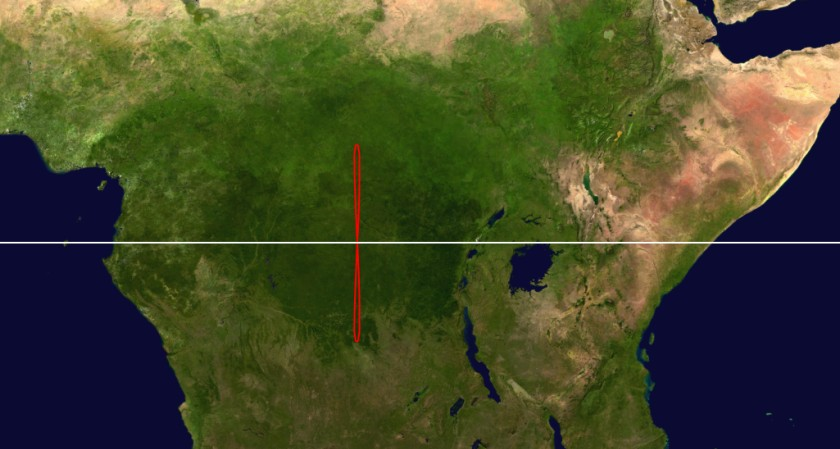 Nadir of Artemis satellite